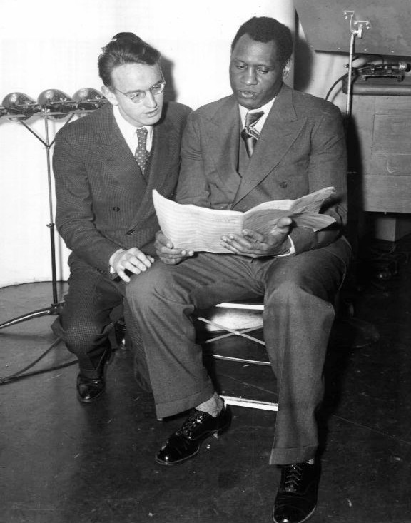 Photo of composer Earl Robinson and vocalist Paul Robeson at rehearsal for the first performance of Robinson's "Ballad for Americans".